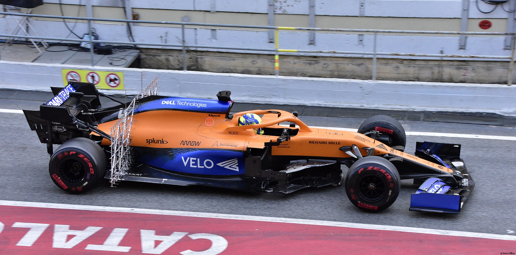 Formula 1 Pre-Season Testing 2020 / Circuit de Barcelona / McLaren MCL35 / Lando Norris / GBR / McLaren F1 Team